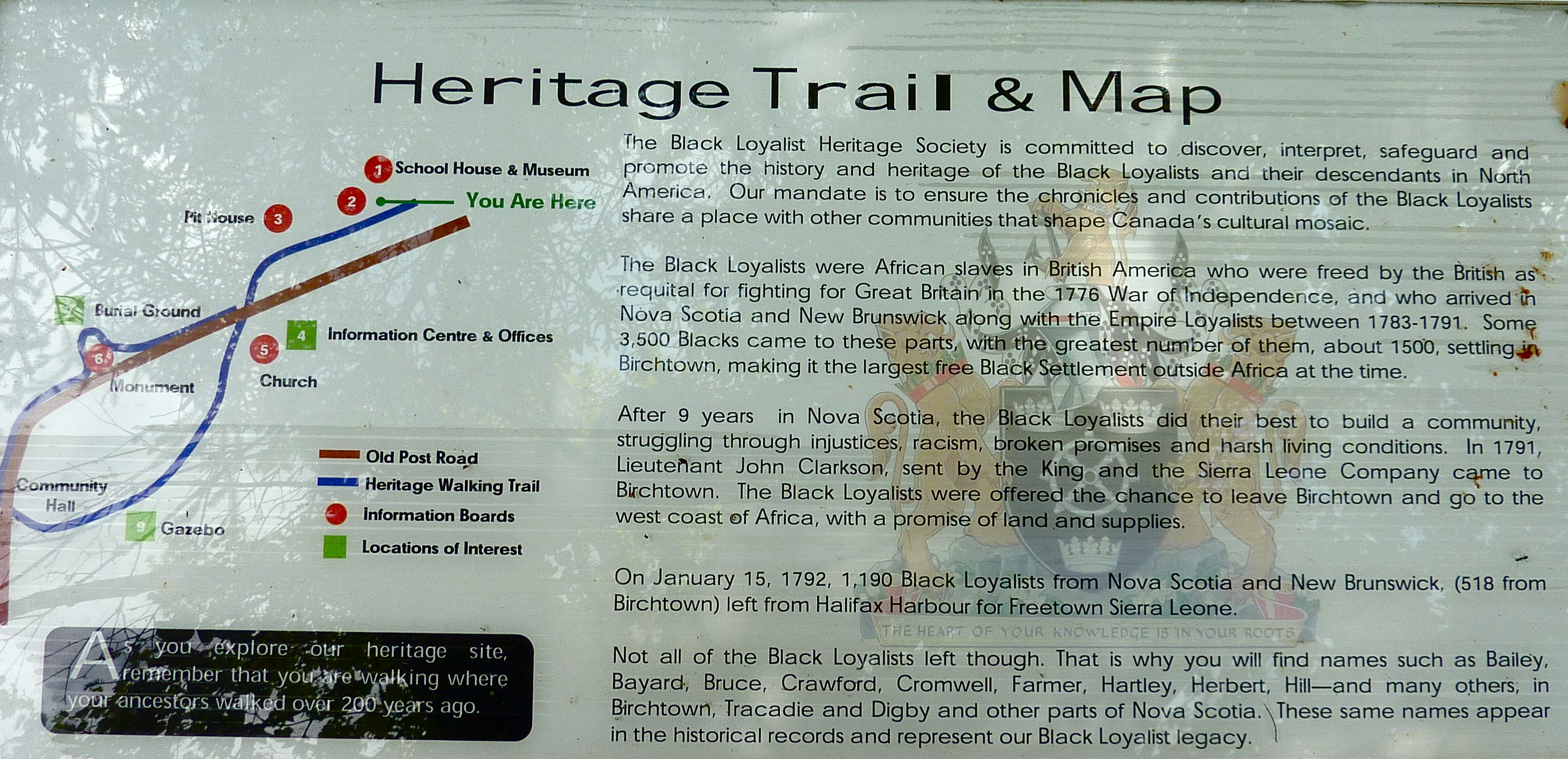 An interpretive sign along the Heritage Trail at the Birchtown, Nova Scotia museum.